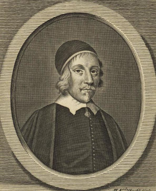 A portrait from the Welsh Portrait Collection at the National Library of Wales. Depicted person: Christopher Love – English minister